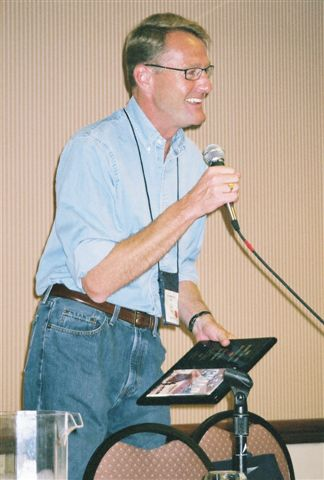 Lee Child, British thriller writer accepting Barry Award.